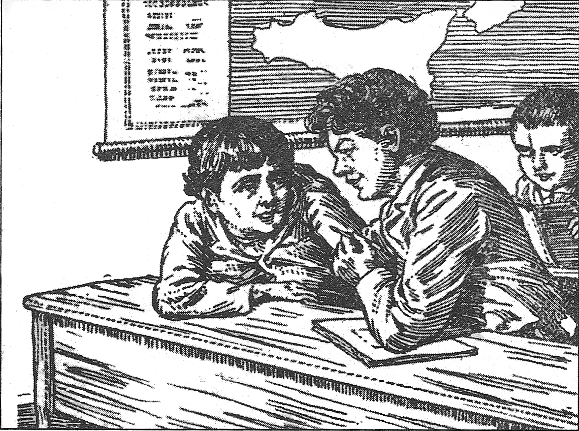 The 8th illustration from the Italian novel Heart by Edmondo de Amicis; it appears in the November chapter.